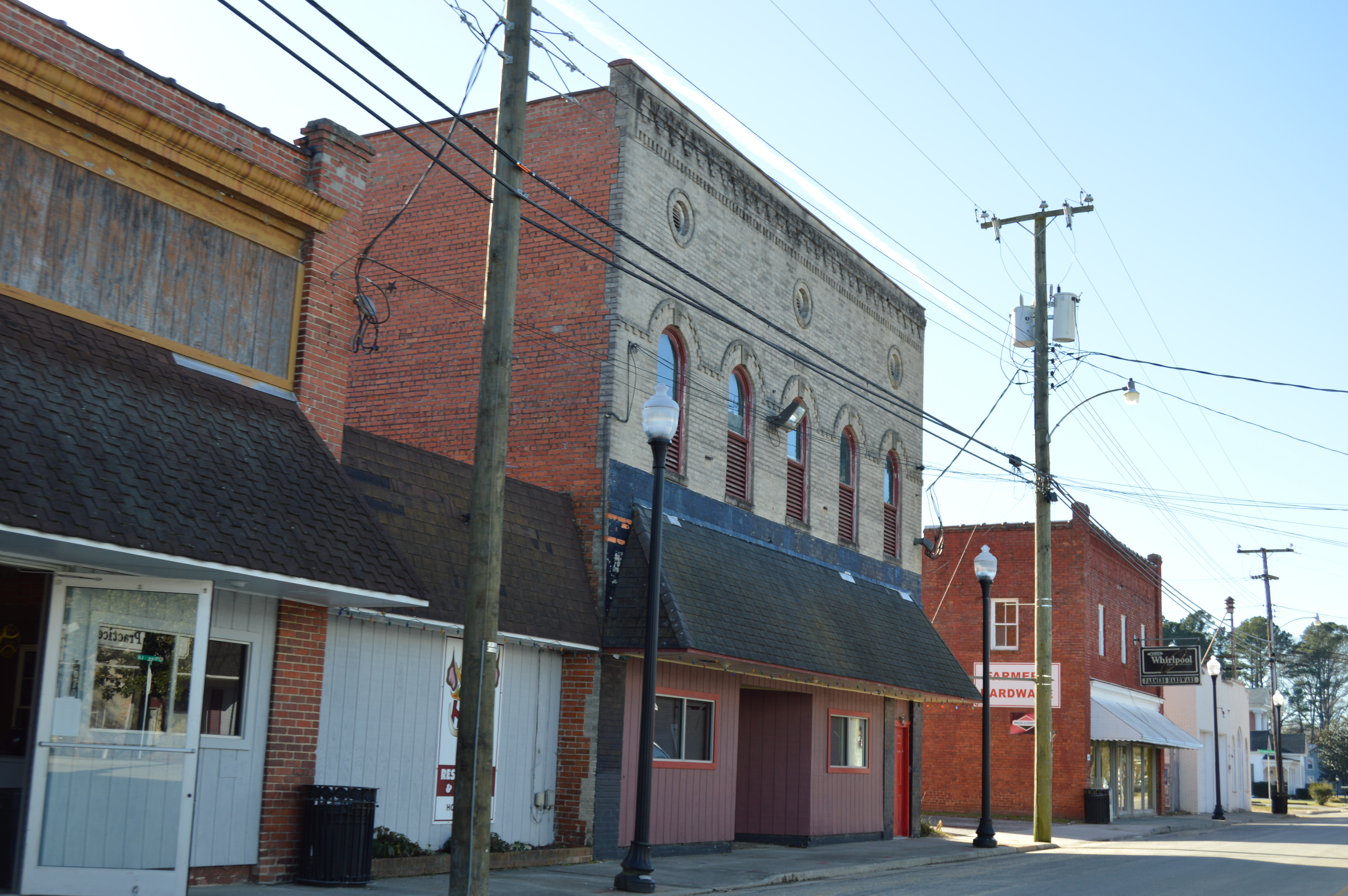 Buildings on Quay Street, south of the rail line, in the Holland community in Suffolk, Virginia, United States. This block is part of the Holland Historic District, a historic district that is listed on the National Register of Historic Places.